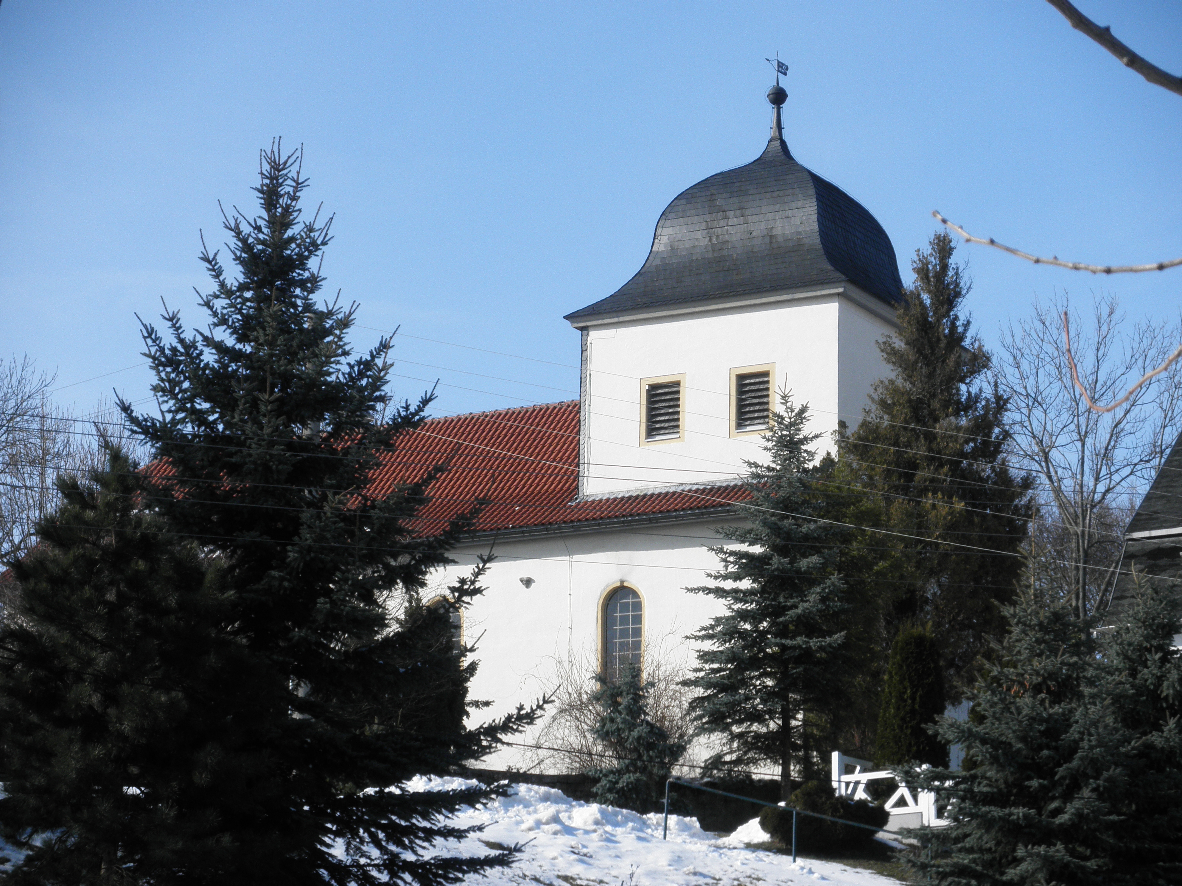 Church in Altengönna (Lehesten) in Thuringia